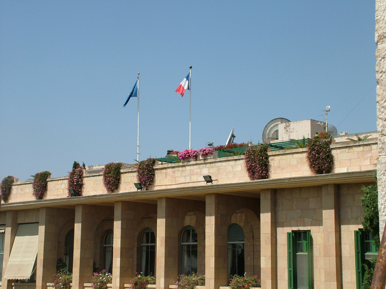 France Consuly on Jerusalem